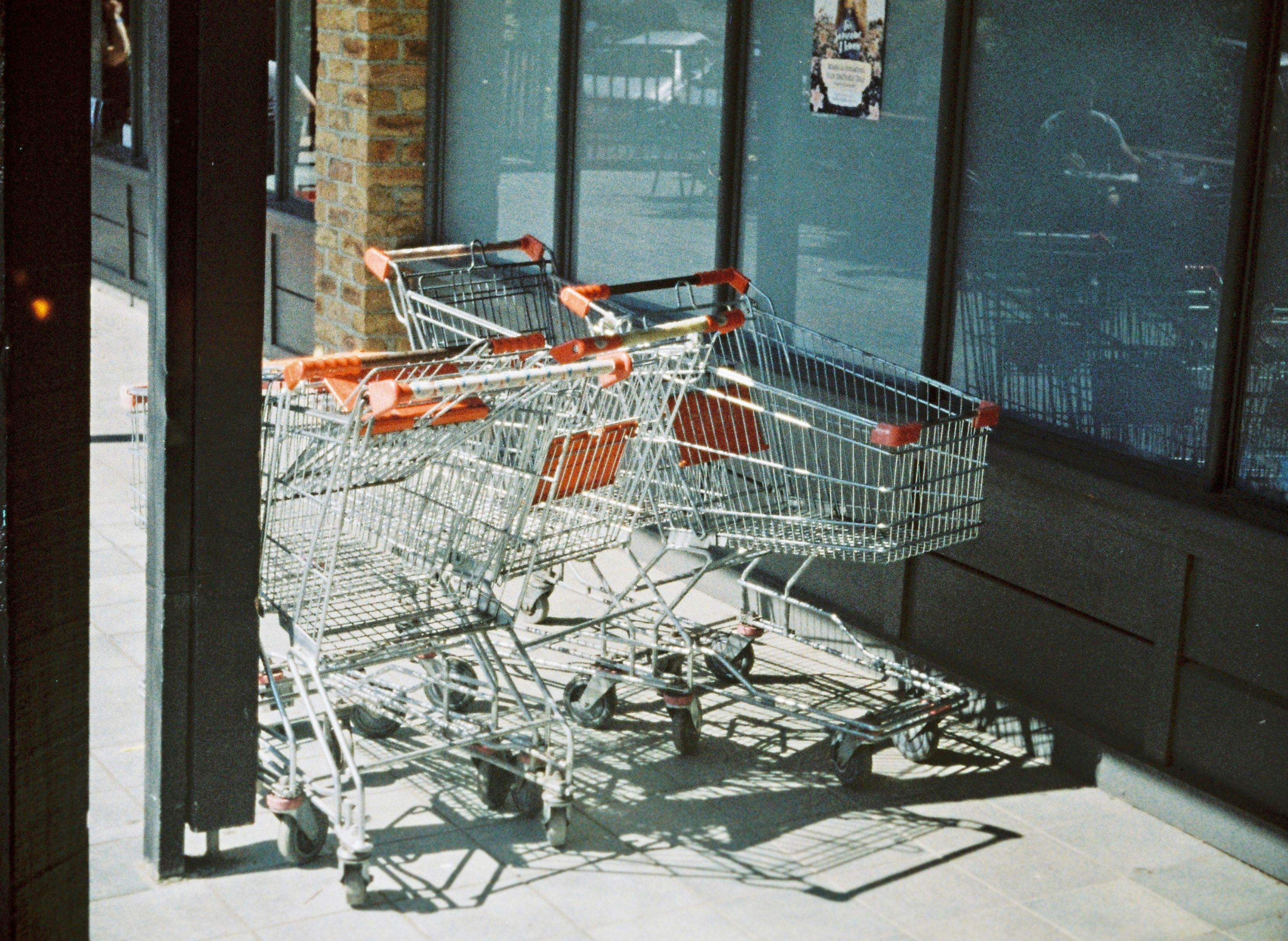 Photographed using the Hanimex Pocket 200, and Lomography's "Tiger" 110 format film. Taken outside the IGA supermarket in Olinda, Victoria, Australia....